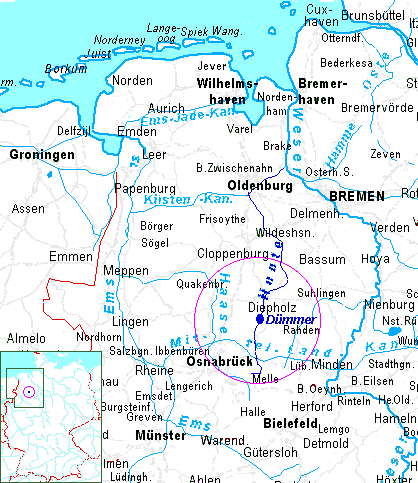 Lake Duemmer and river Hunte between rivers Weser and Ems in northwestern Germany